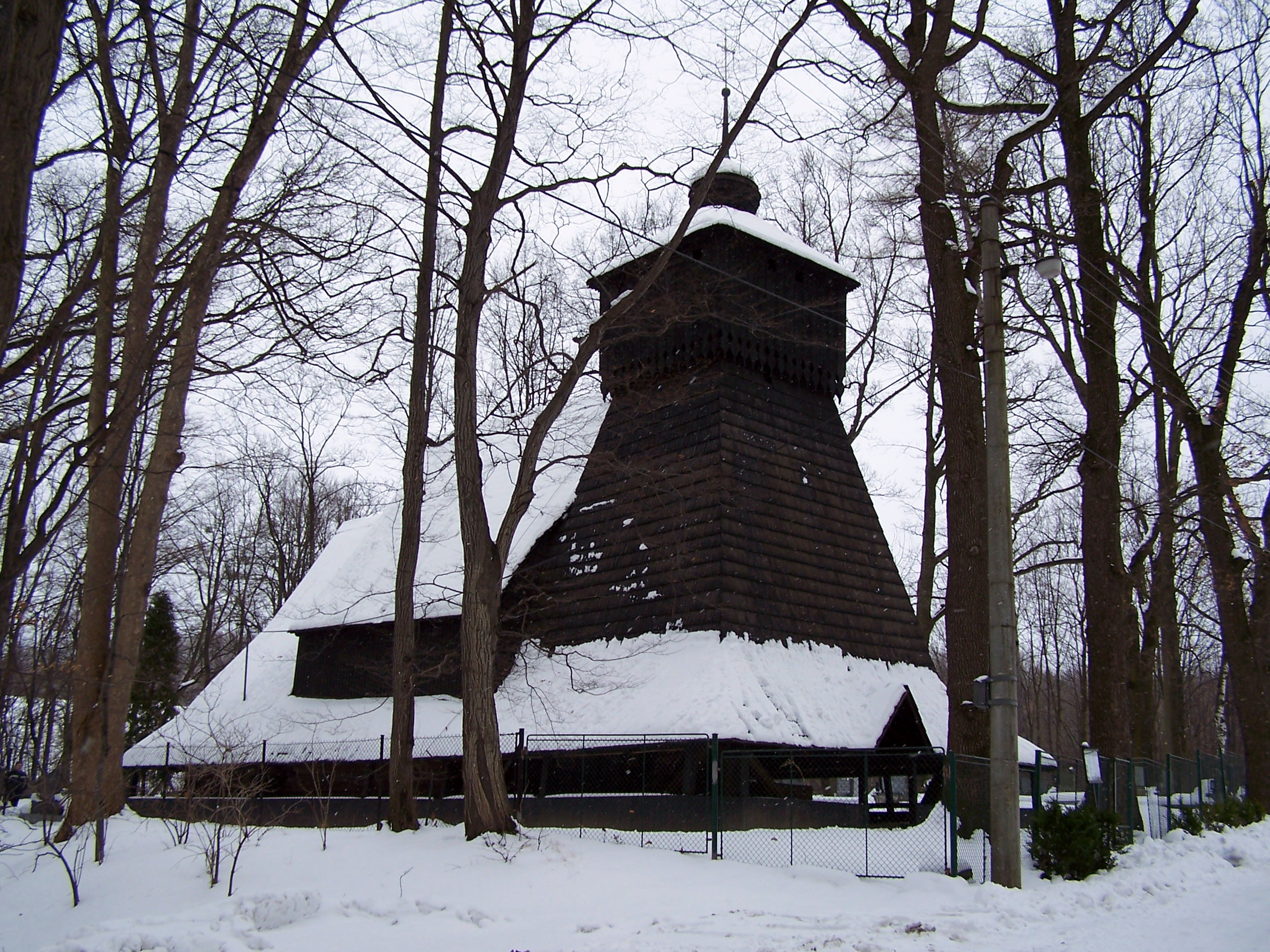 Corpus Christi Church in Guty, Czech Republic